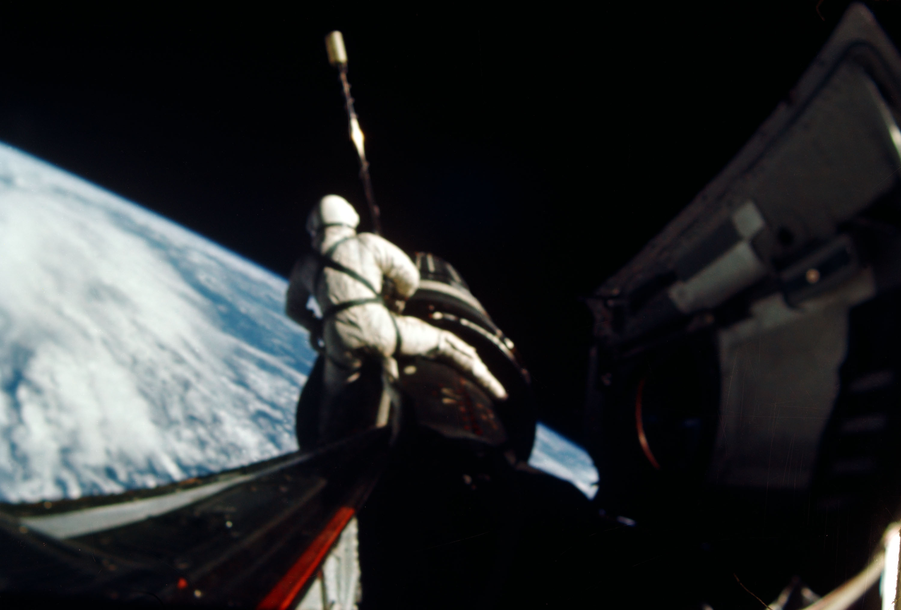 S66-54455 (13 Sept. 1966) --- Astronaut Richard F. Gordon Jr., Gemini-11 pilot, attaches a tether line from his spacecraft to the Agena Target Docking Vehicle (ATDV) during a spacewalk. This view was taken over the Atlantic Ocean at approximately 160 miles above Earth on Sept. 13, 1966. With the aid of the ATDV, Gordon and astronaut Charles (Pete) Conrad Jr., command pilot, set a new altitude record of 750 miles during the GT-11 mission.